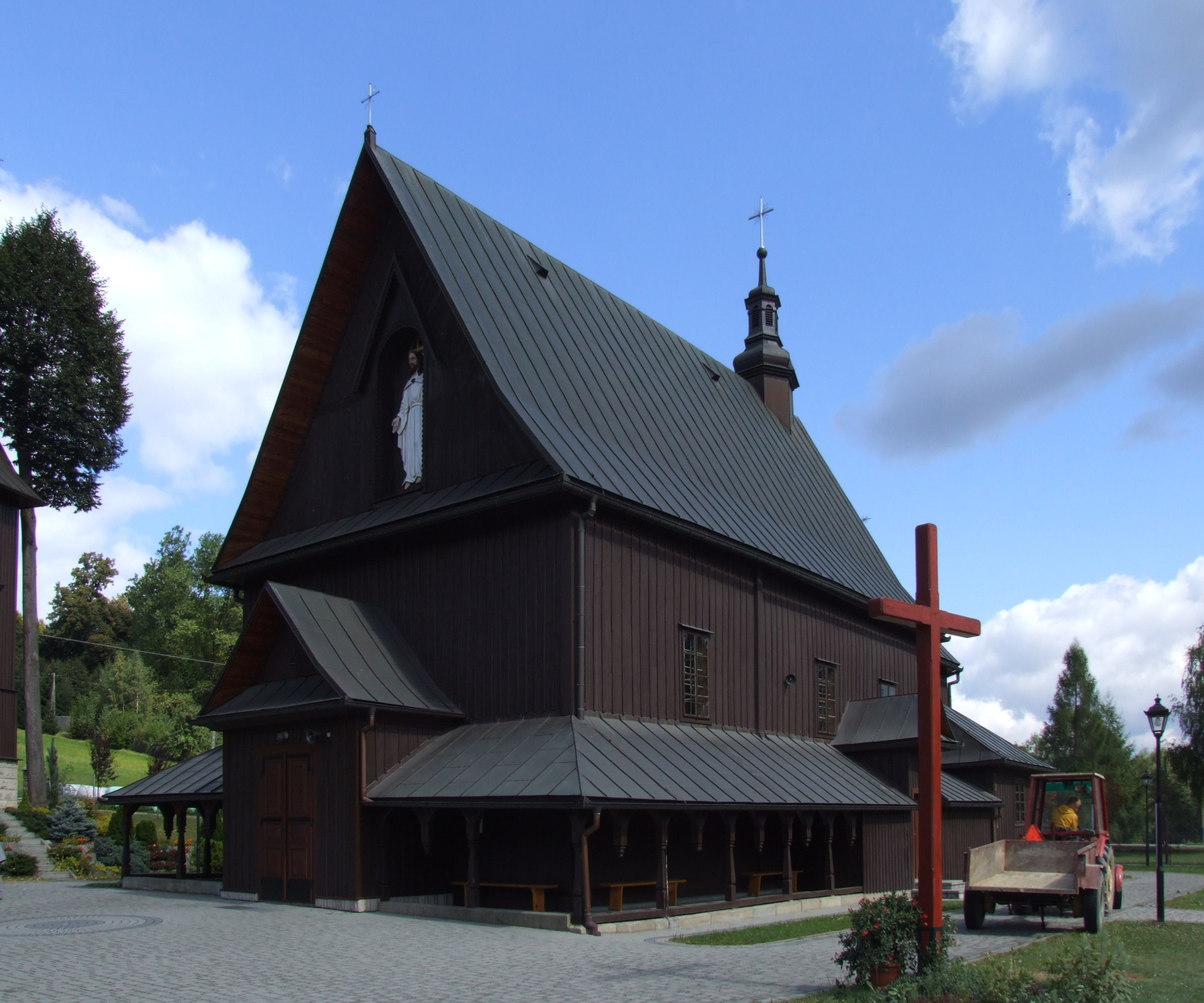 Saint Nicholas, wooden church in Tymowa